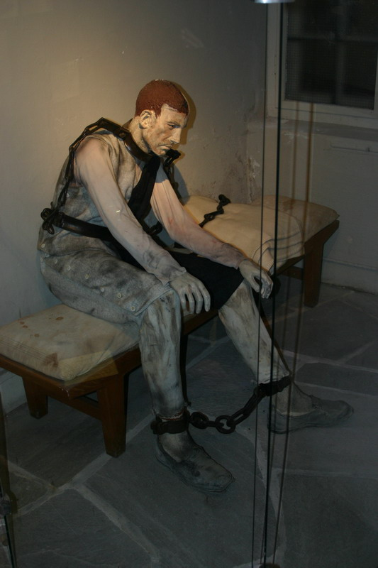 Fredriksten festning, Halden